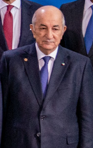 Abdelmadjid Tebboune at the Libyan peace process Berline conference on 19 January 2020